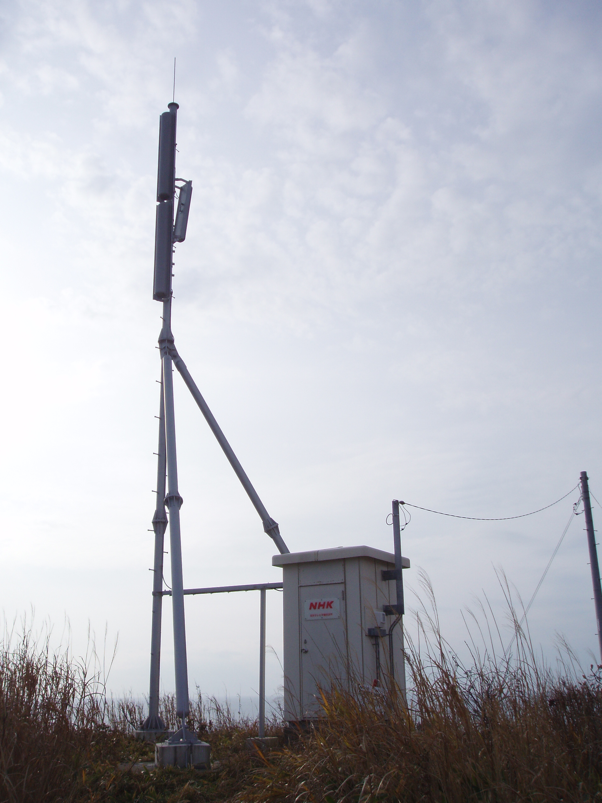 NHK transmitter at the Ogifushi Broadcasting Relay Station